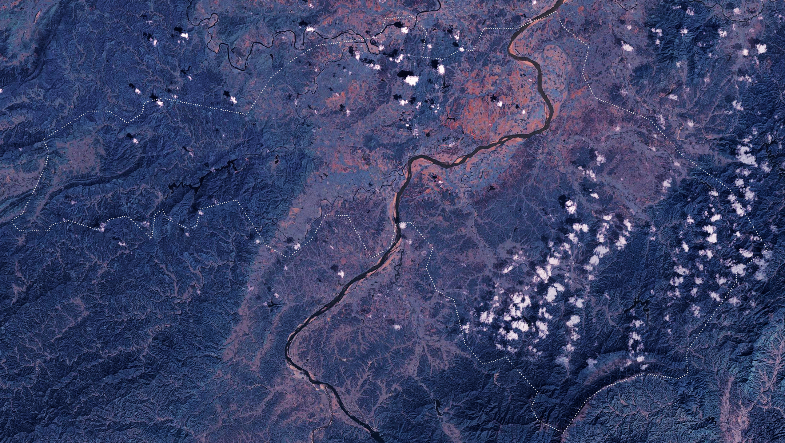 Satellite Image of Taihe County, China